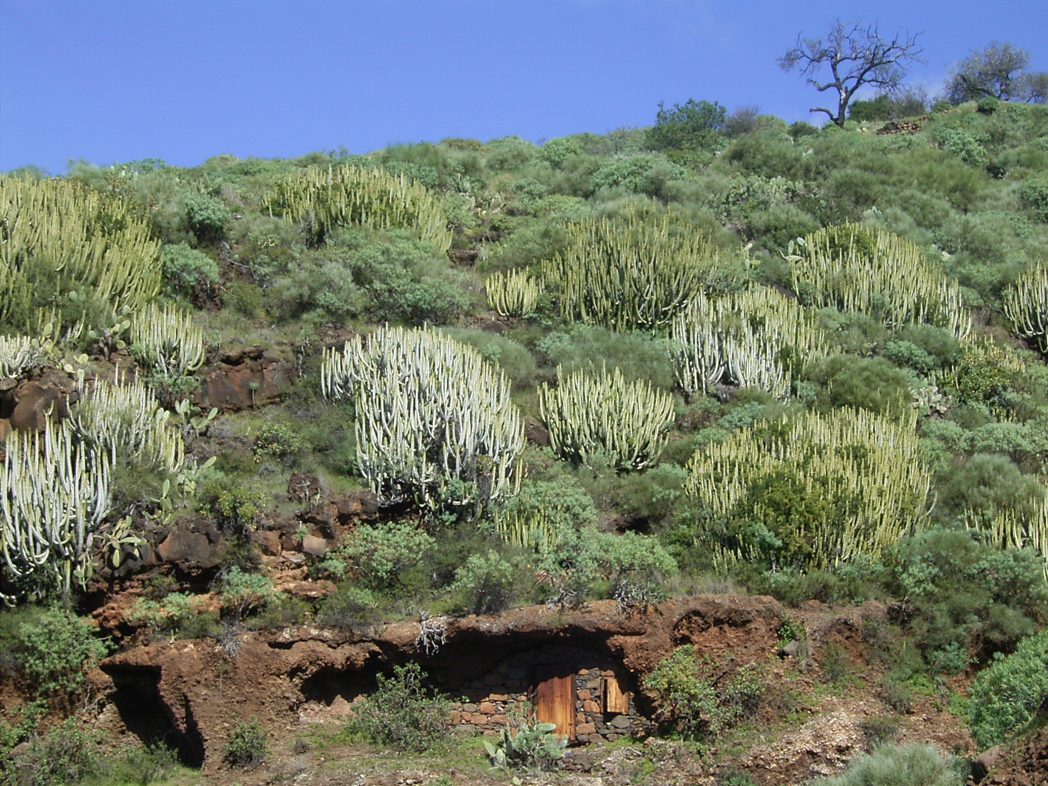 Euphorbia canariensis growing in Puntagorda, La Palma, Canary Islands